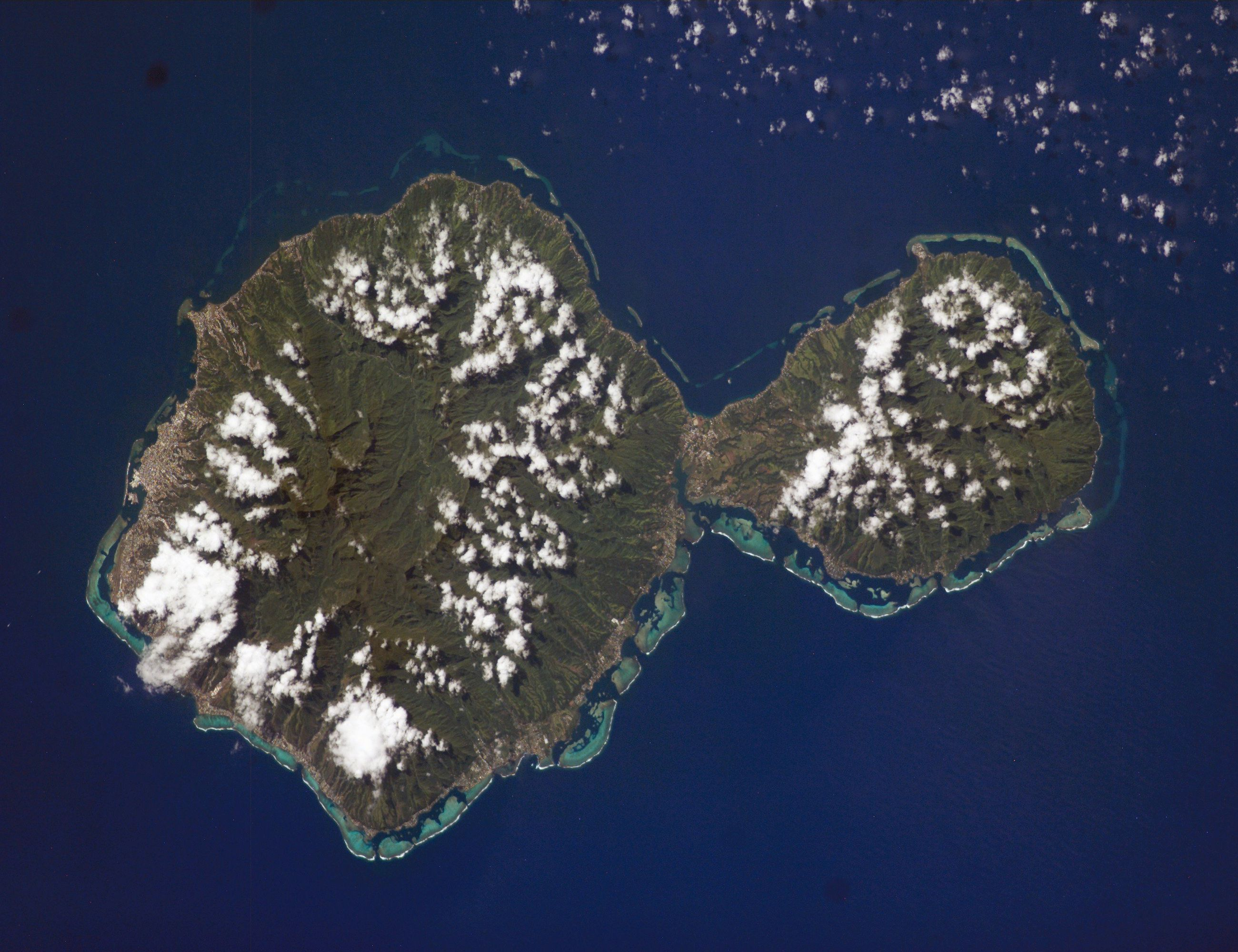 NASA astronaut image of Tahiti, Society Islands, French Polynesia